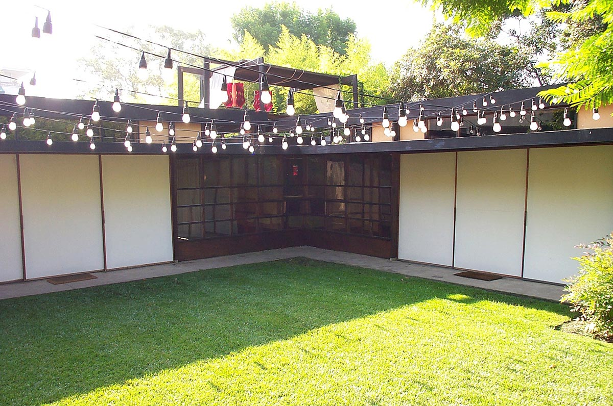 Schindler-Chase House, or Kings Road House on Kings Rd. in West Hollywood.